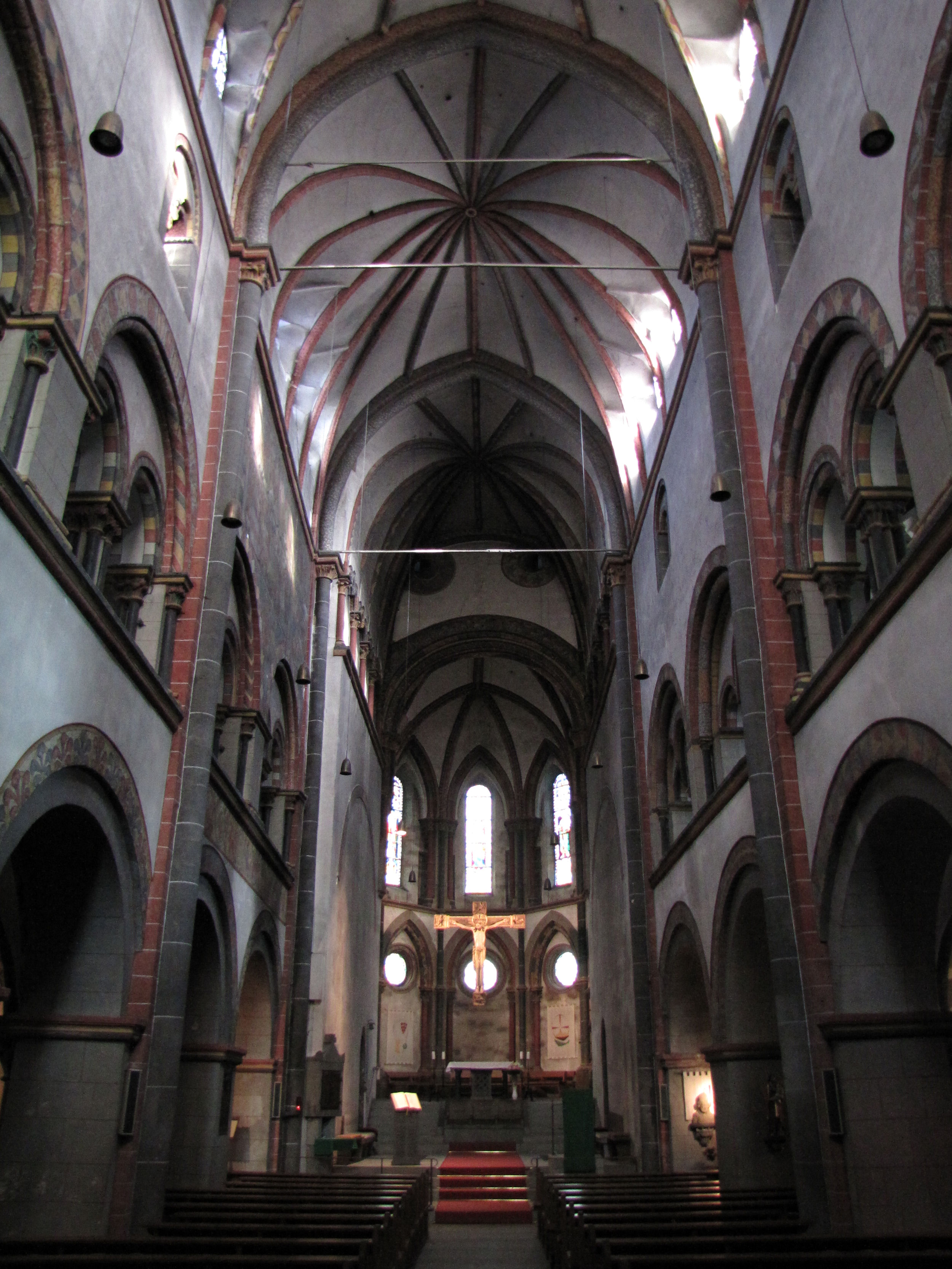 Interior of St. Severus church in Boppard